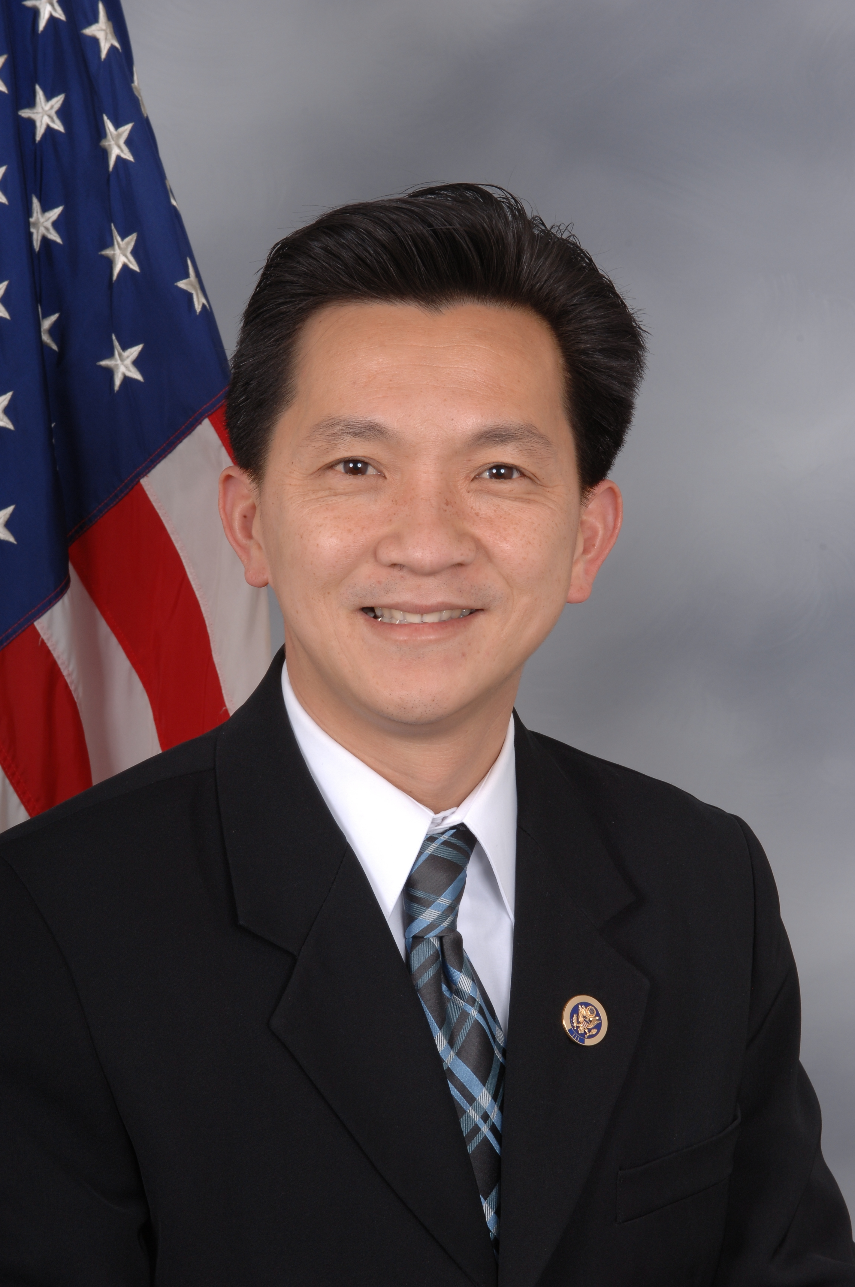 Official photo of Representative Joseph Cao (R-LA).